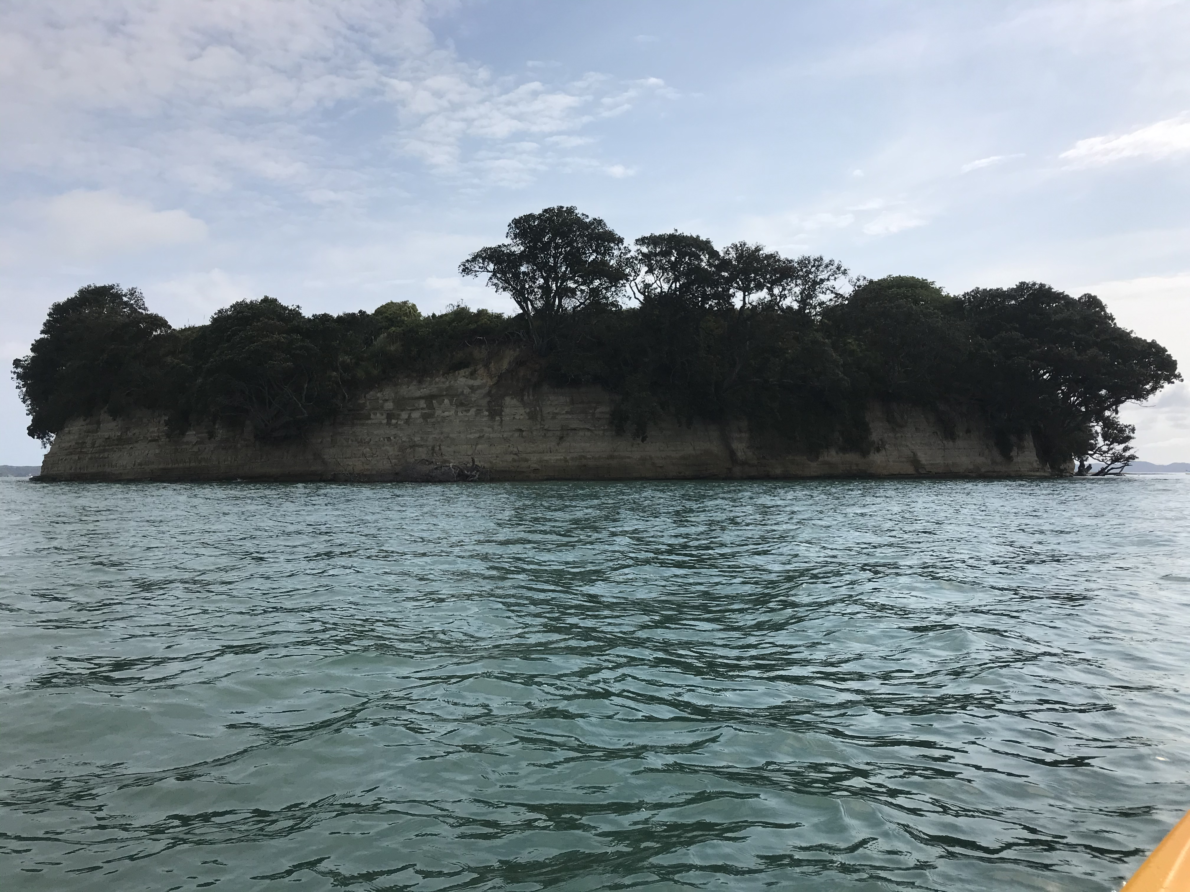 Motukaraka Island, Hauraki Gulf viewed from a kayak